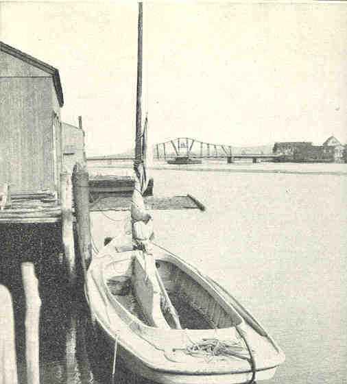 Small Sailing Boat Used in Tonging Oysters in Quinipiac River, Conn . Subject: Oyster fisheries, Fishing boats Geographic Subject: United States--Connecticut--Quinnipiac River Tag: Vessels, Commercial Fisheries